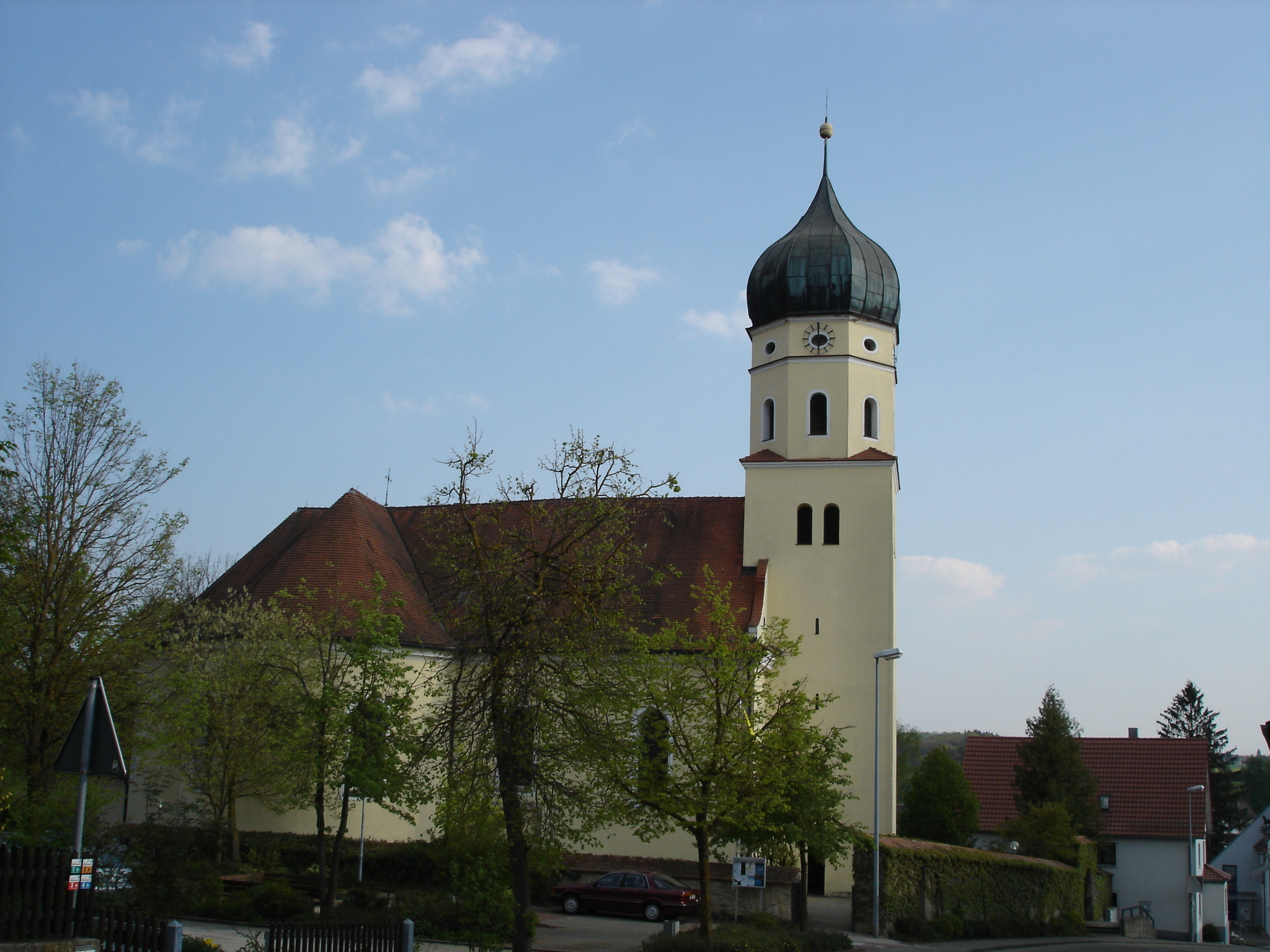 Catholic church Saint Martin in Westerstetten